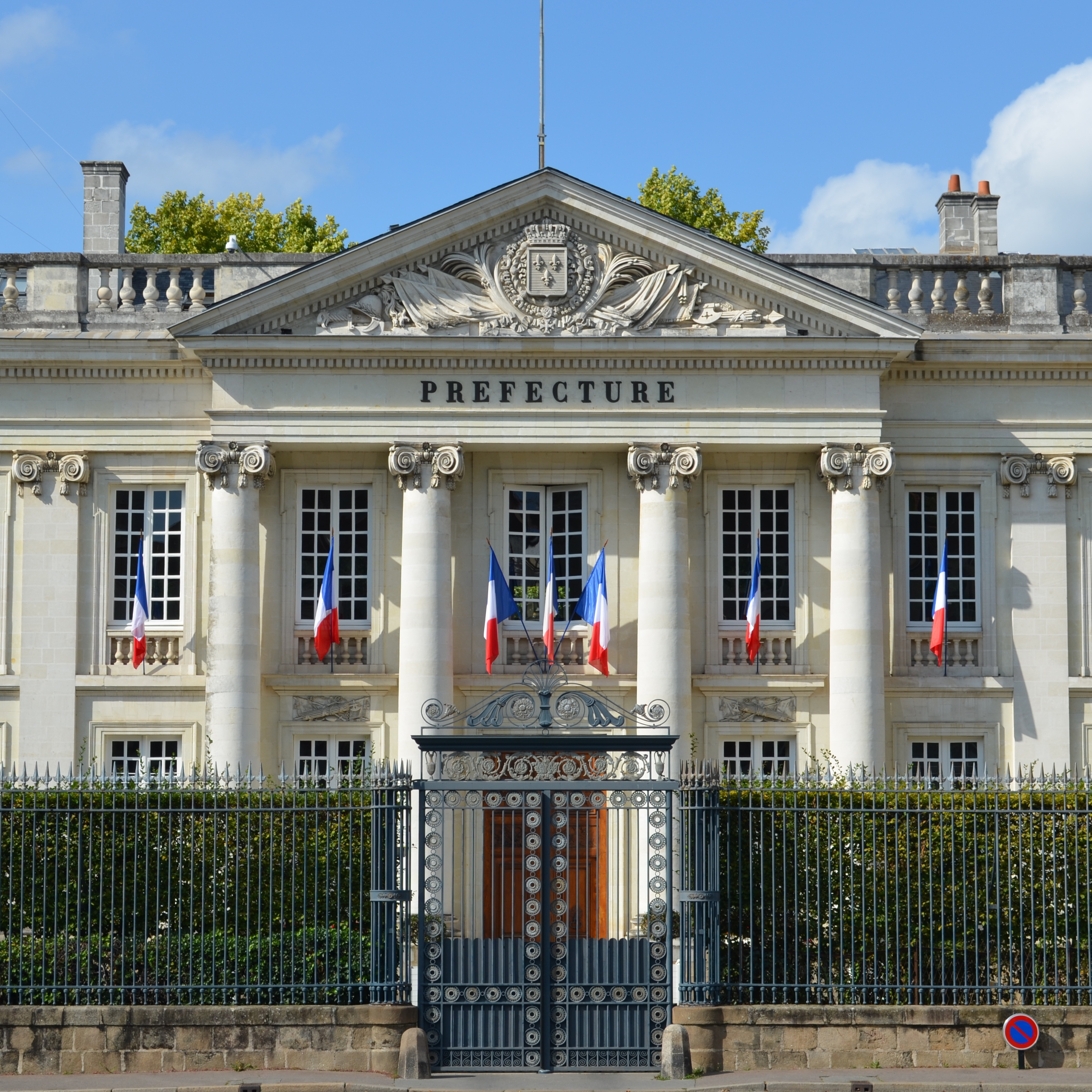 Prefecture building, conceived by Jean-Baptiste Ceineray and built between 1759 and 1781 - Nantes .